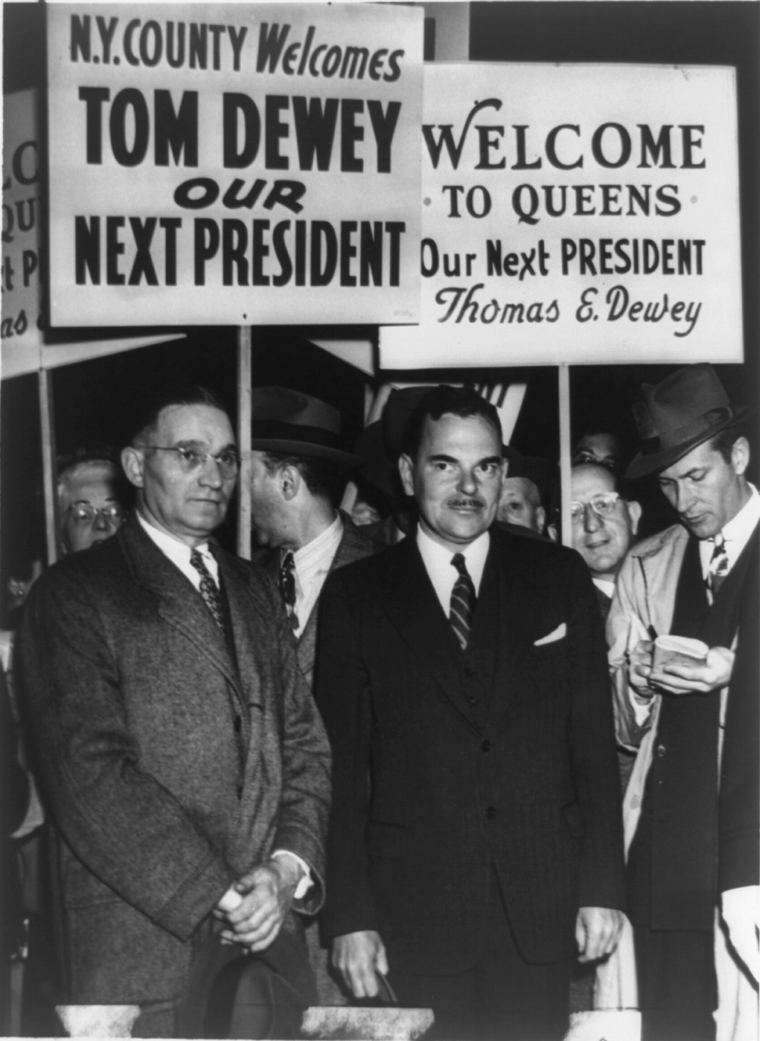 Candidate's welcome. Thomas E. Dewey with Thomas J. Curran, Manhattan GOP leader, on return from campaign tour / World-Telegram photo by Palumbo.